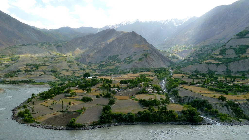 Jamrj-e Bala is one of the towns of Badakshan province Afghanistan, In Darwaz region And beside panj river is located .